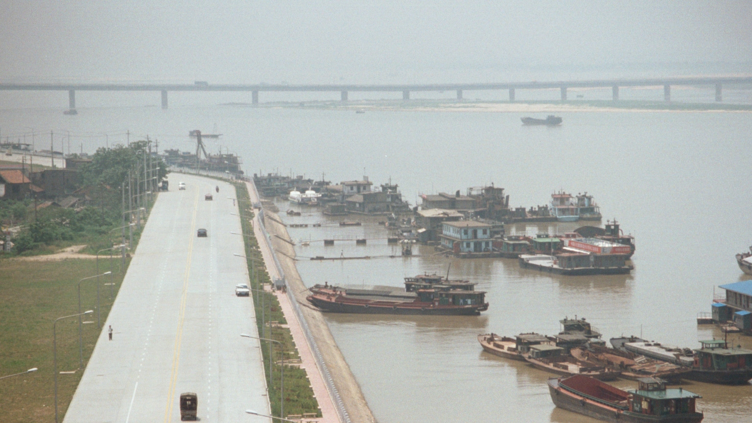 Gan River in Nanchang